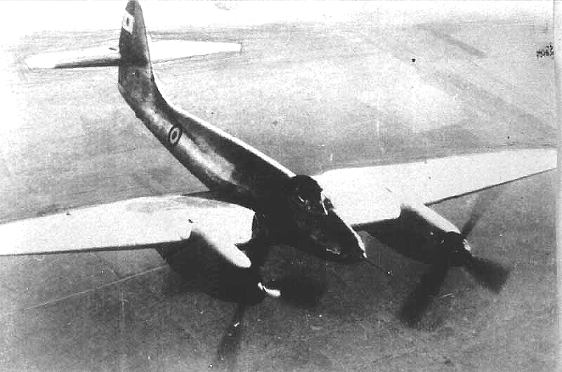 As with the rest of the pics that I've uploaded up to this time, I believe this is in the "Public Domain" because of its age (1948) and its presumed original source ("Archivo Gráfico de la Nación", a government agency in Argentina). This pic was obtained from the website referenced in the "IAe30" wikiarticle. That website has a "disclaimer" paragraph in the home page that roughly says: "" the 3-views and histories of the aricraft in this site have been taken from "Revista Nacional Aeronáutica y Espacial" June 1962 issue. The authors of that article were Eduardo Ferreti y Federico Giró "" DescriptionIAe 30 Ñancú. Military twin-engine fighter plane. 1948 SourceArchivo Gráfico de la Nación Datecirca 1948 Authorunknown Permissionno need Ley (law) 11.723, art. 34 Other versionsunknown